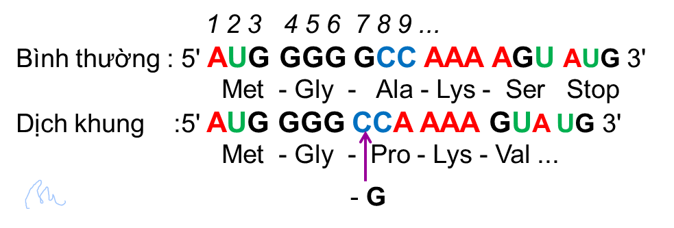 A types of indel mutation, reading frame is simply a deletion a nucleotide.